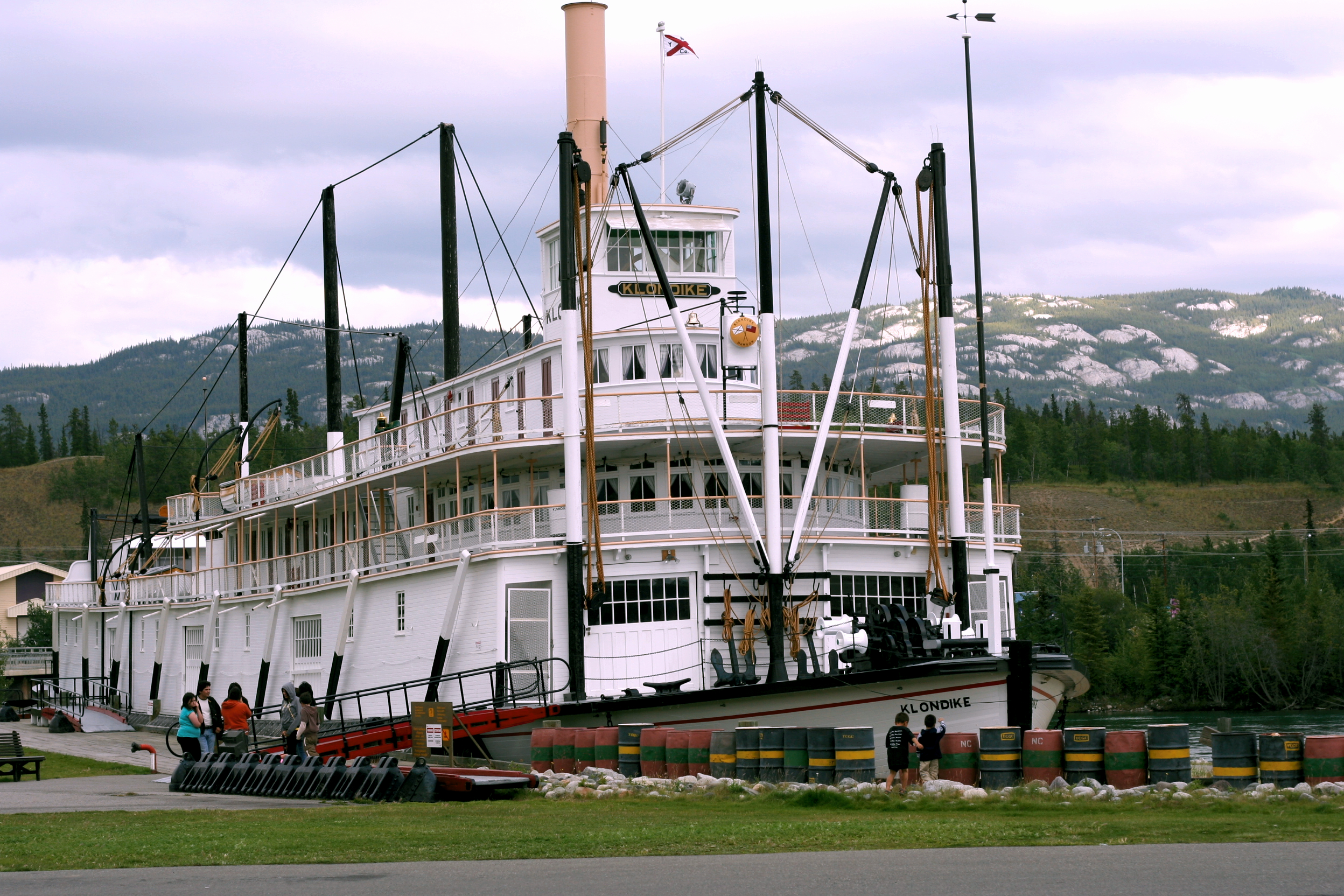 SS Klondike